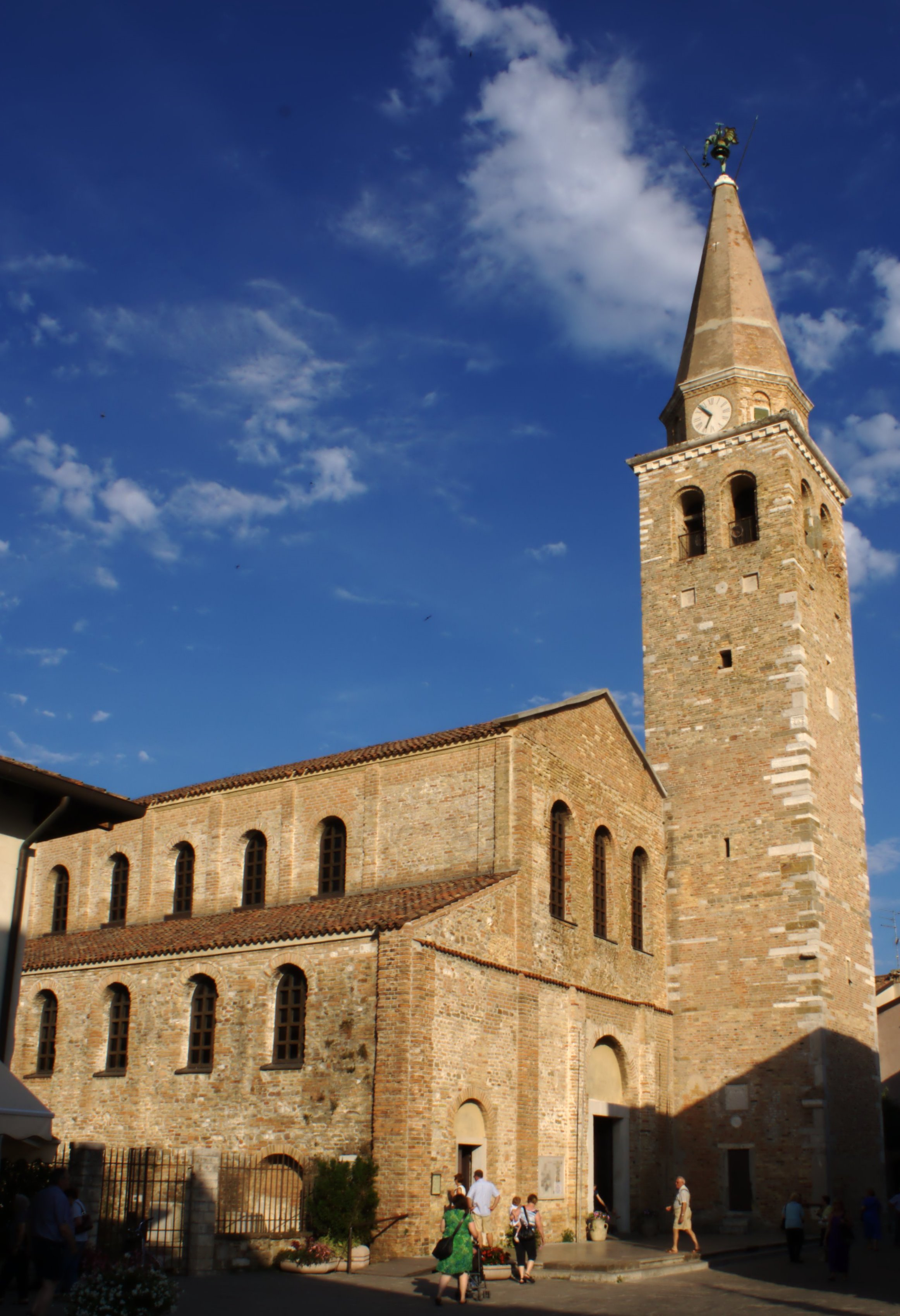 Basilica of Sant'Eufemia.